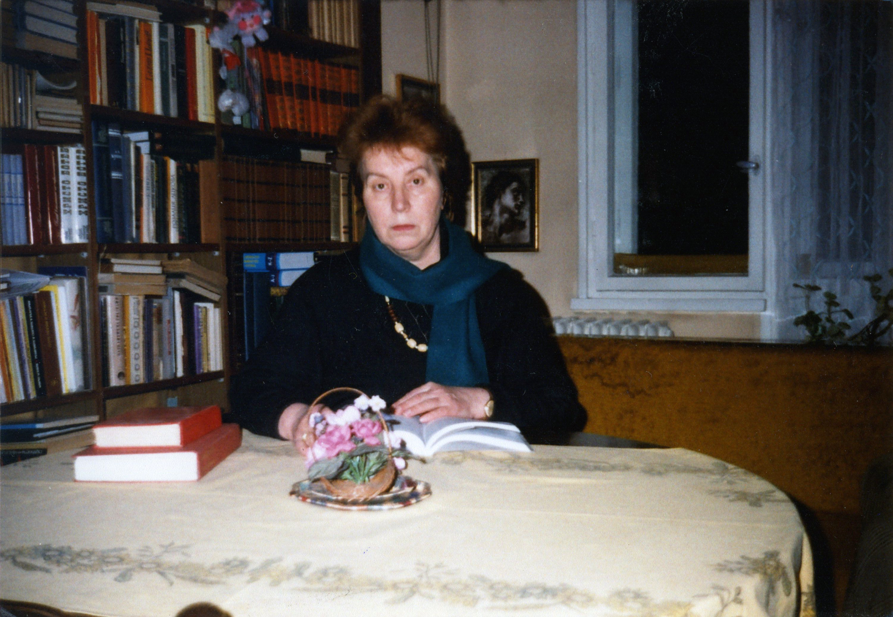 Maria Antonova